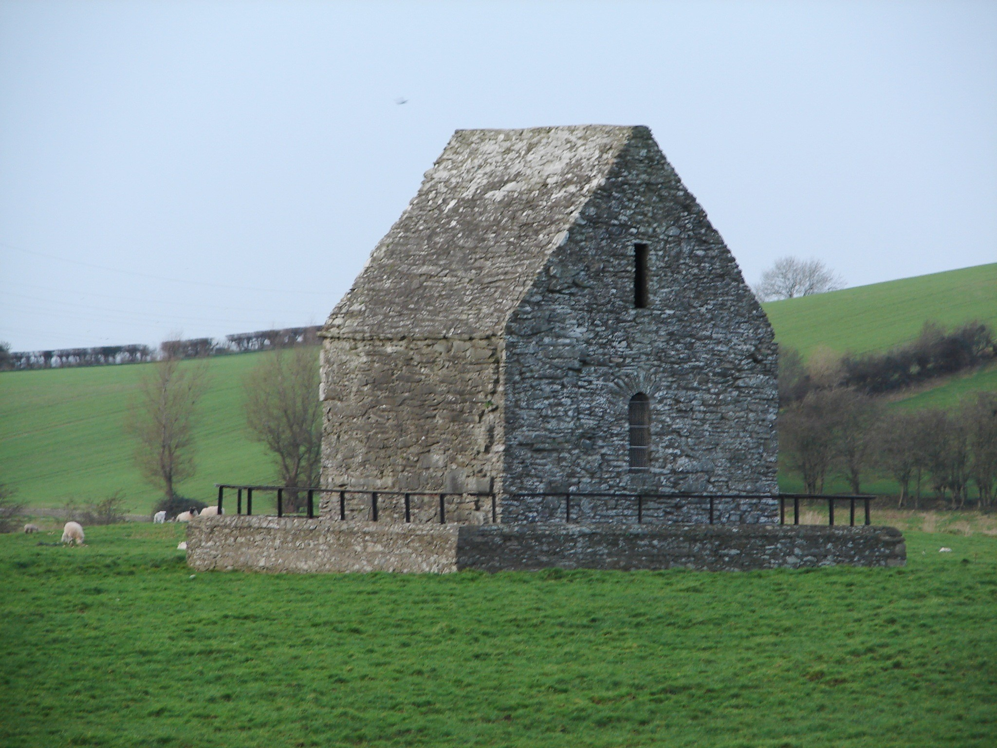 St Mochtas House Church